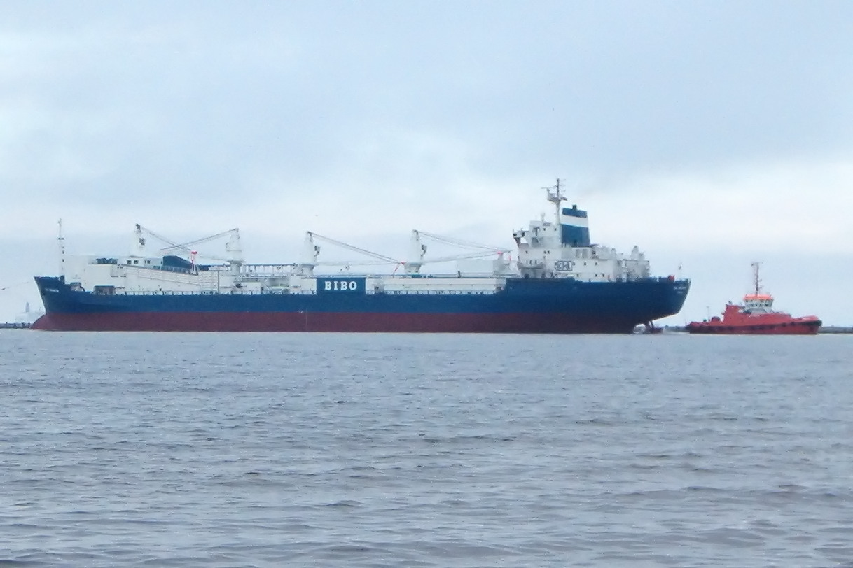 CHL Innovator (BIBO type vessel) leaving Gdansk, Poland IMO Number: 7342469 MMSI Number: 563410000 Callsign: 9VNG Length: 190 m Beam: 35 m